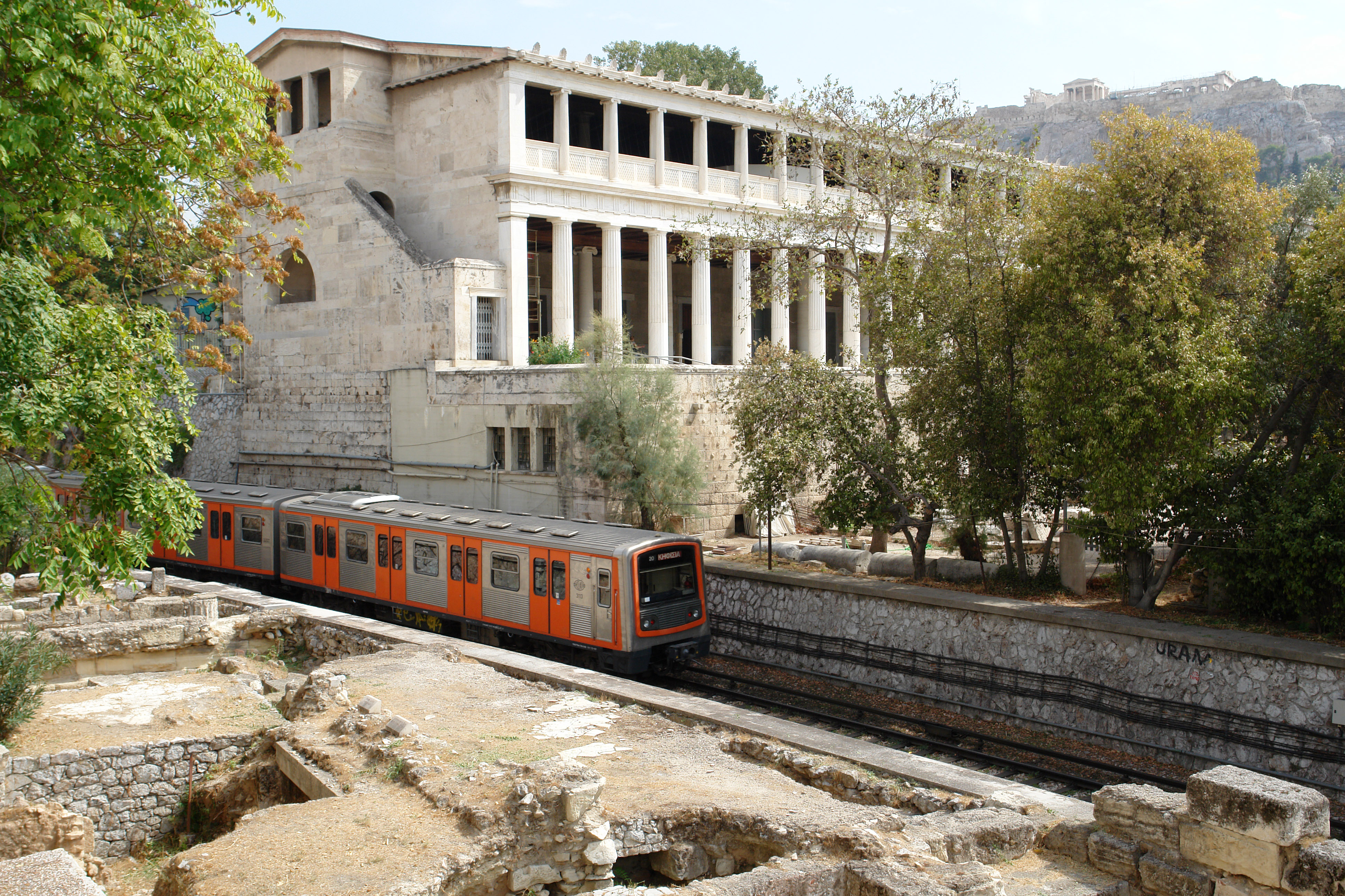 A train of Athens-Piraeus Electric Railways passes the Stoa of the ancient Agora.